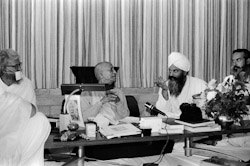 This is a photo of Yogi Bhajan meeting in San Francisco with ISKCON founder Swami A.C. Bhaktivedanta and Jain Muni Sushil Kumar in 1975.